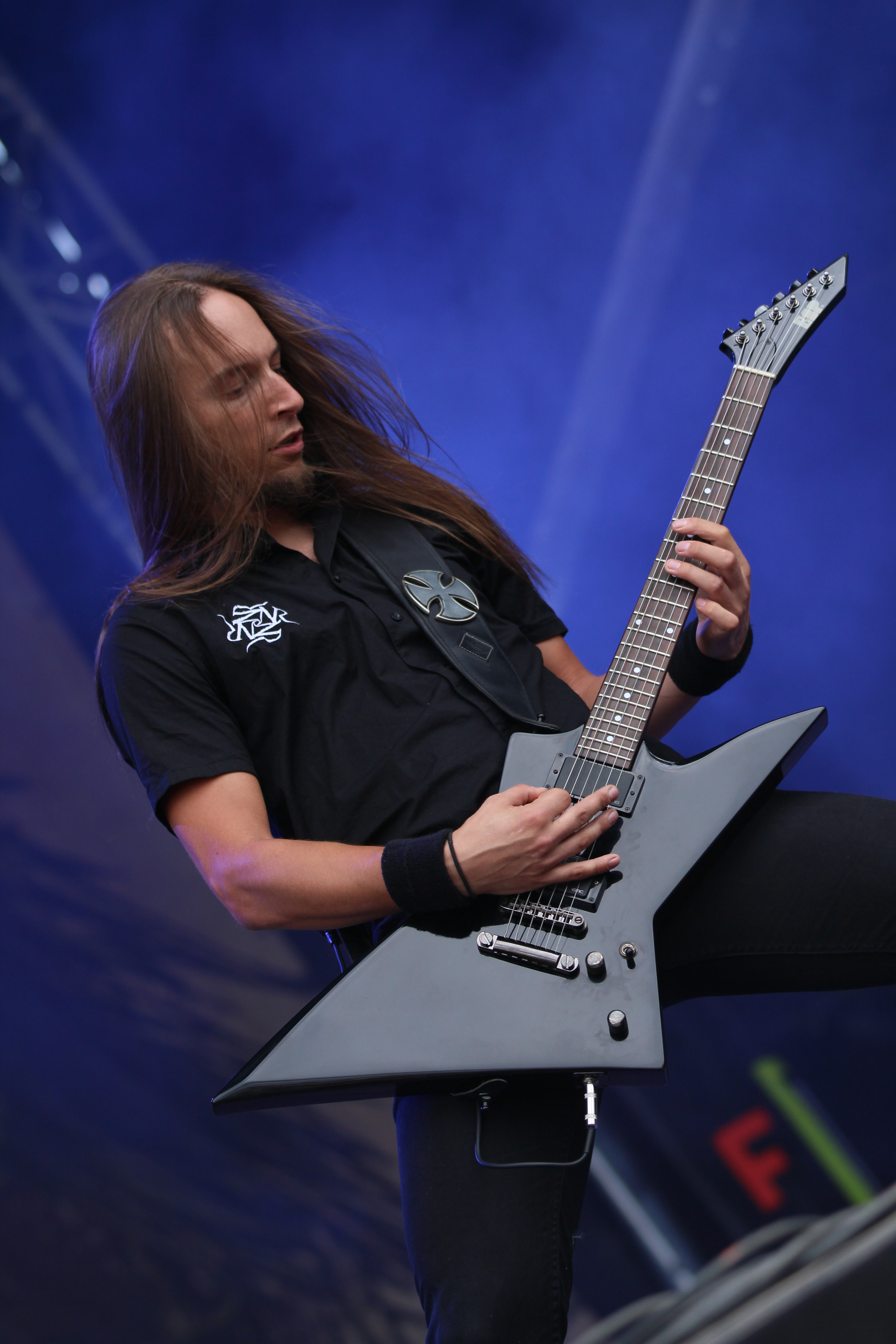 The Dutch death metal/thrash metal band Legion of the Damned at the Rockharz Open Air 2014 in Ballenstedt/Germany